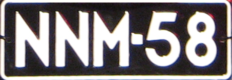 Finnish license plate for old museum car.